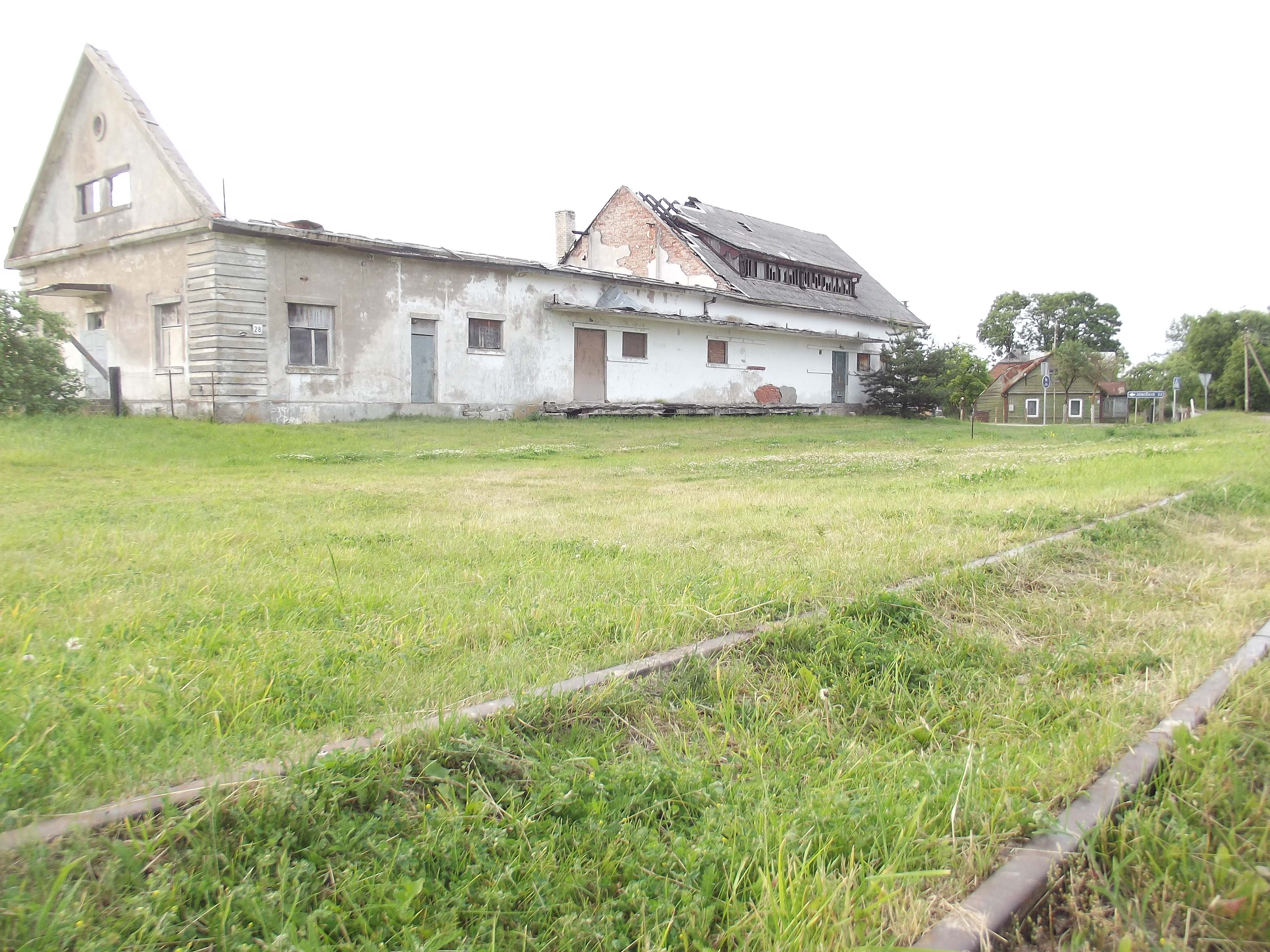 Linkuva, former narrow gauge train station, Pakruojis district, Lithuania